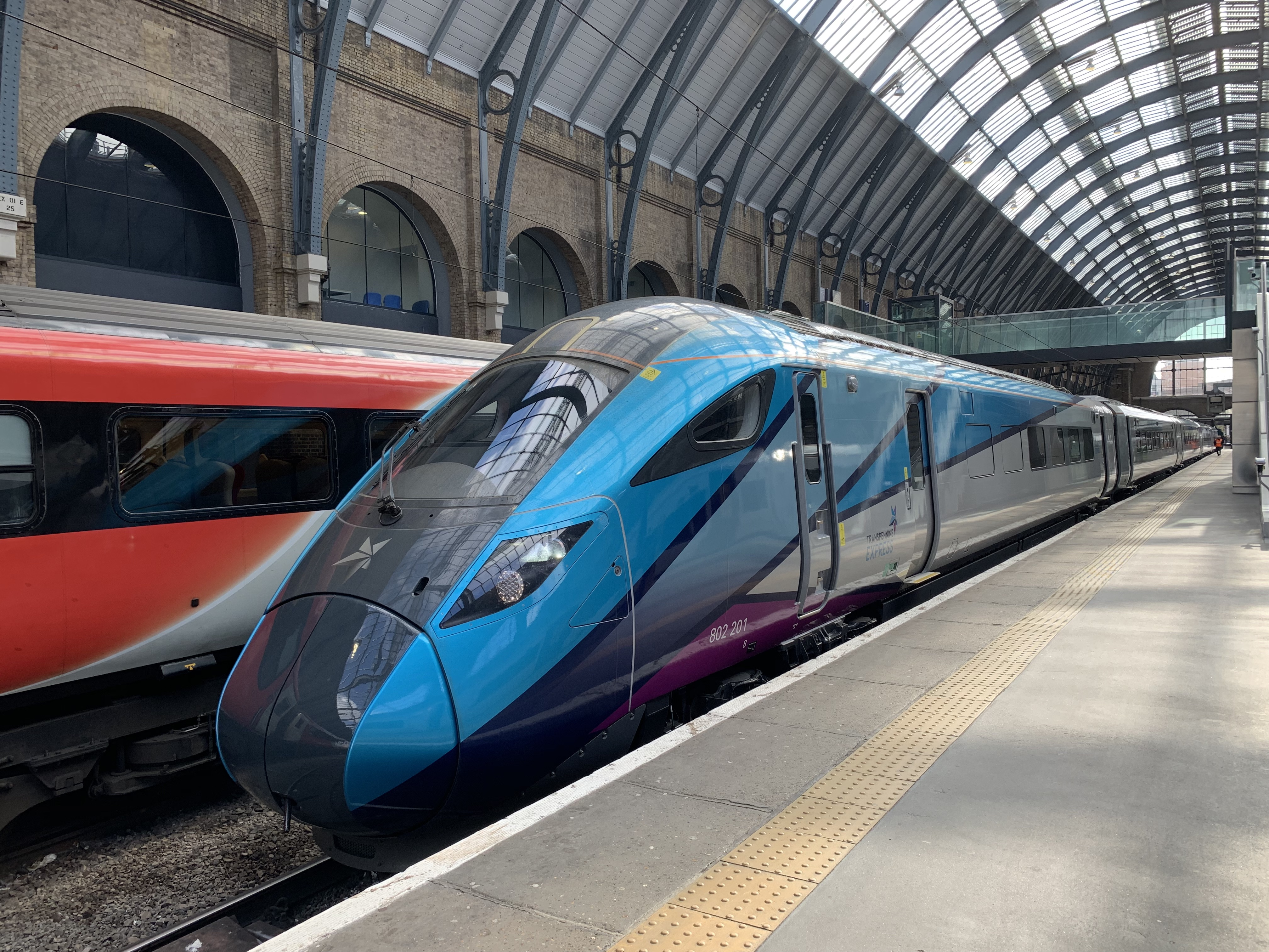 802201 'Nova 1' is seen testing at London Kings Cross in full Transpennine Express livery on 20th February 2019.